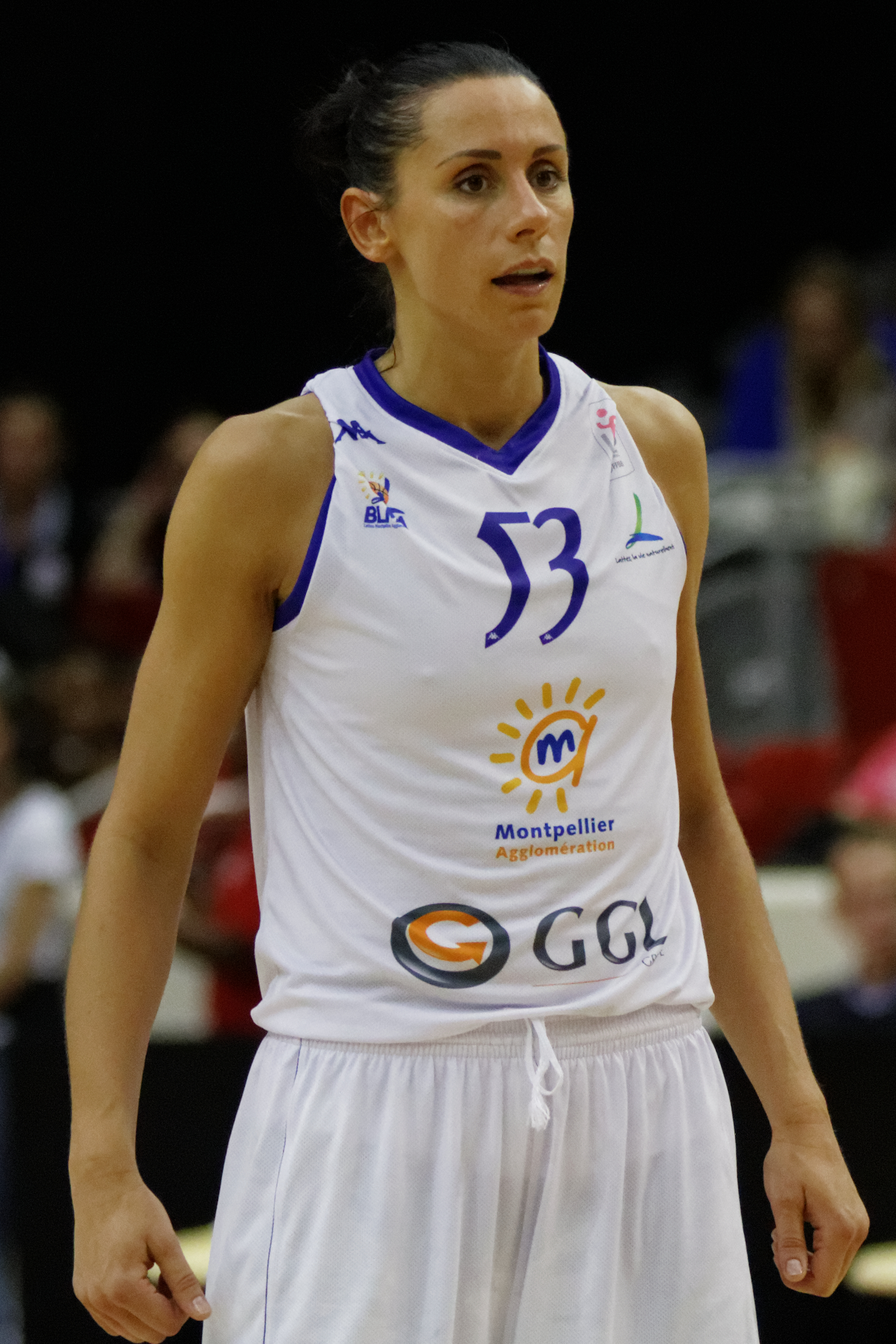 Open LFB, Lattes Montpellier-Nice, October 6th, 2013.